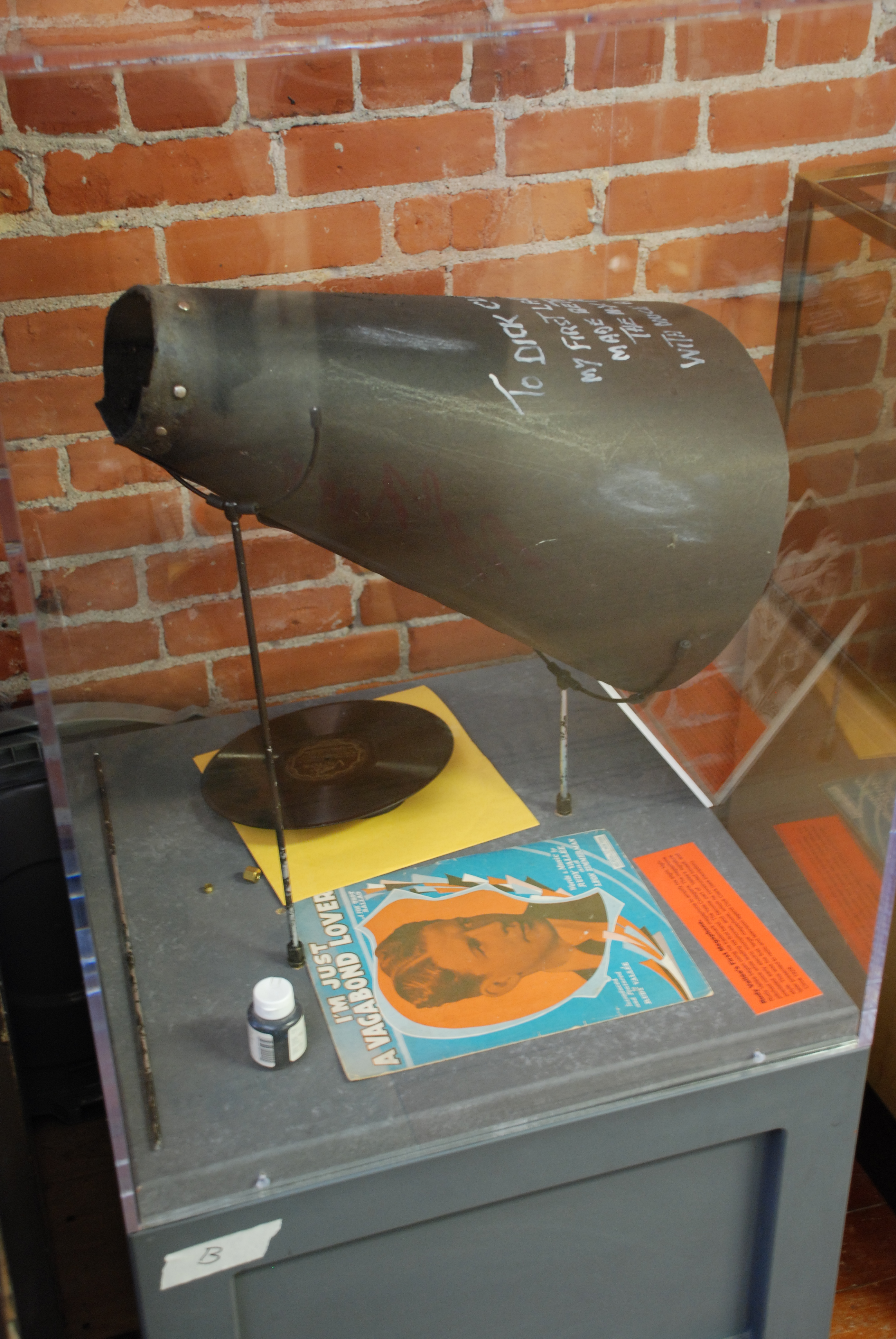 Rudy Vallee Megaphone crafted by Vallee in between shows at the New York Palace in May 1929. The Megaphone is on display at The American Museum of Radio and Electricity.